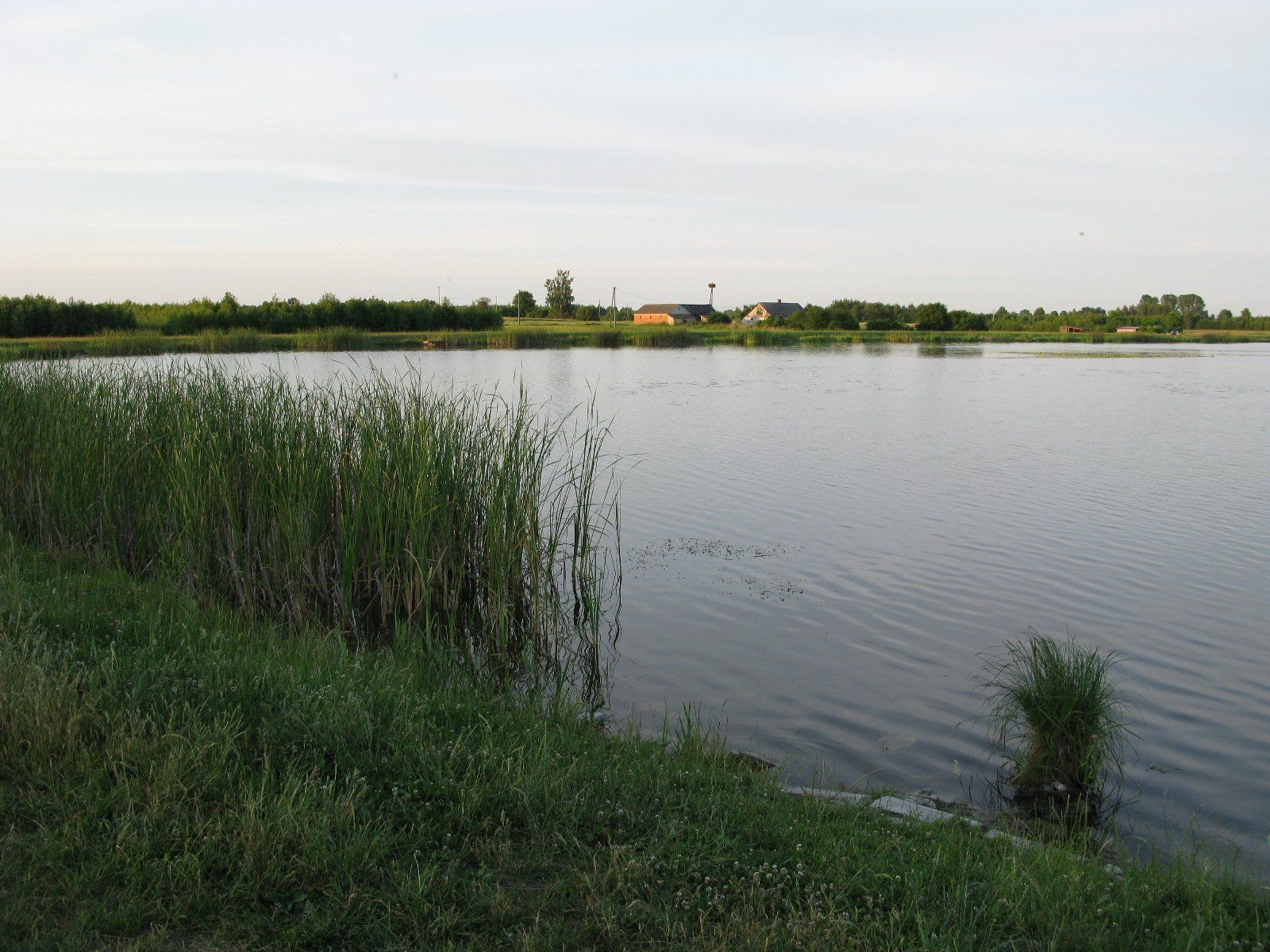 Majdan Zahorodynski